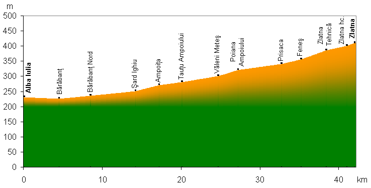 elevation profile of the railway track Alba Iulia-Zlatna